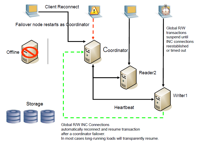 SAP IQ Multiplex